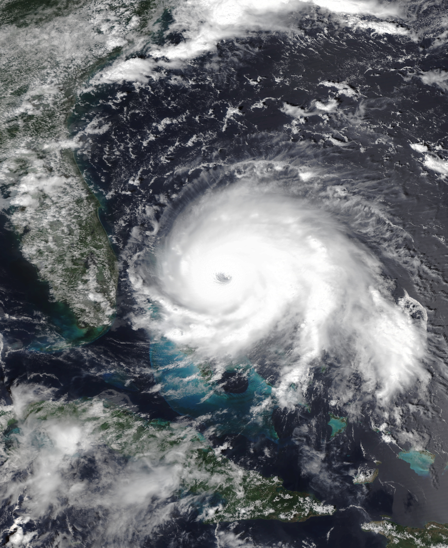 Hurricane Dorian on September 1, 2019